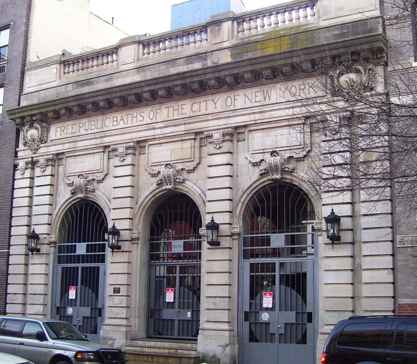 The Public Baths at 538 East 11th Street, between Avenues A and B in the Alphabet City area of the East Village neighborhood of Manhattan, New York City, was built in 1904-1905 and designed by Arnold W. Brunner the the neo-Italian Renaissance style. The baths closed in 1958, and the building was used as a warehouse and garage. In 1980 scenes for the film Ragtime were shot in the building. In 1995 photographer Eddie Adams converted it into a high-end photo studio, "Bathhouse Studios". The building was designated a NYC landmark in 2008. (Sources: NYCLPC designation report, and historical plaque on site)